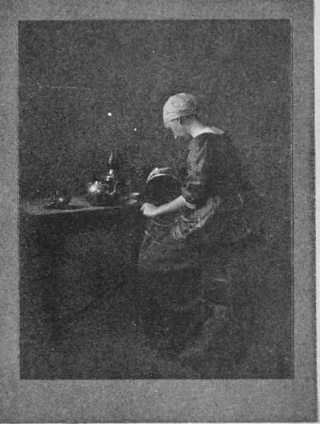 POLISHING BRASS Study No-16 Mrs. Myra Albert Wiggins See-Page-358